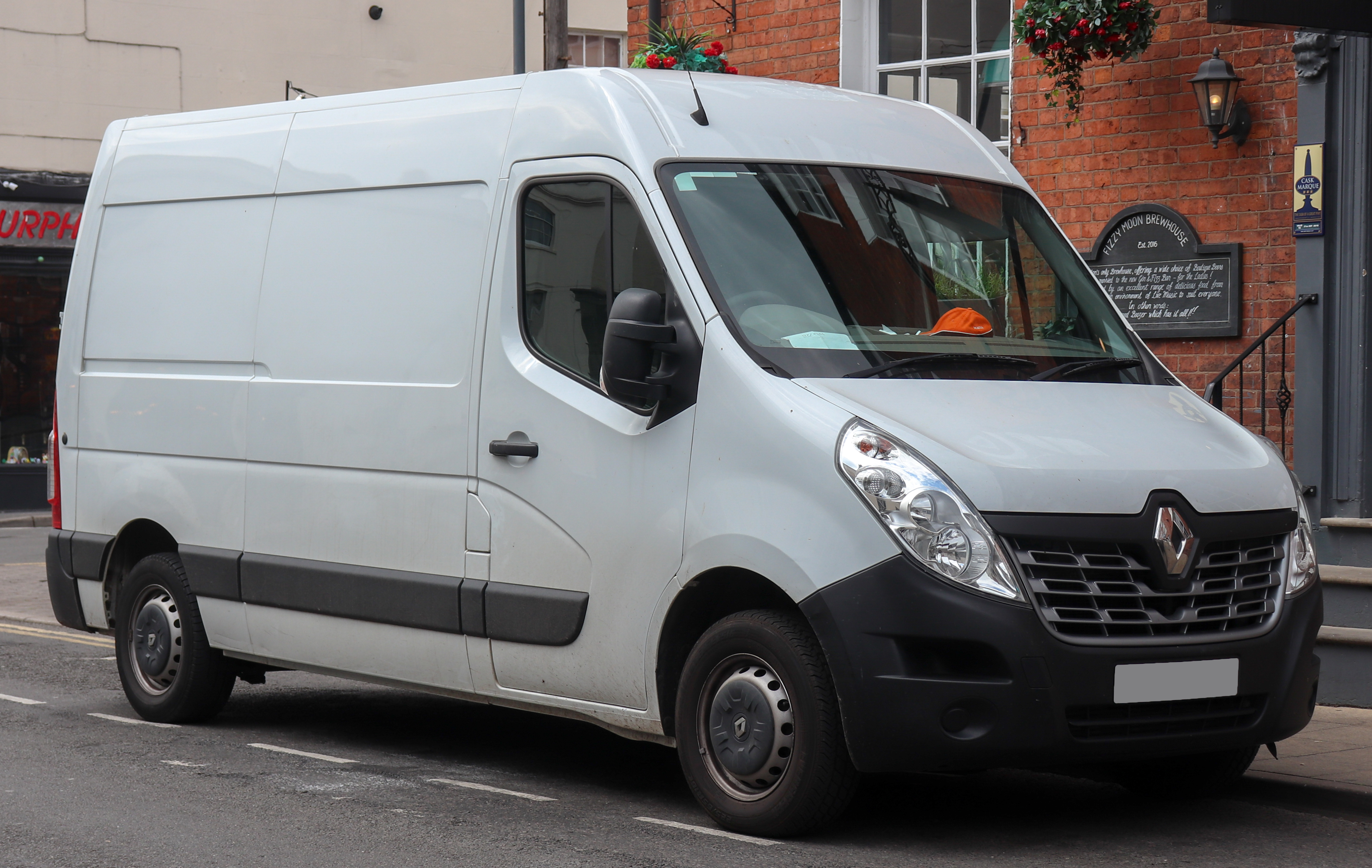 2015 Renault Master Mm35 Business DCi 2.3 Front Taken in Leamington Spa